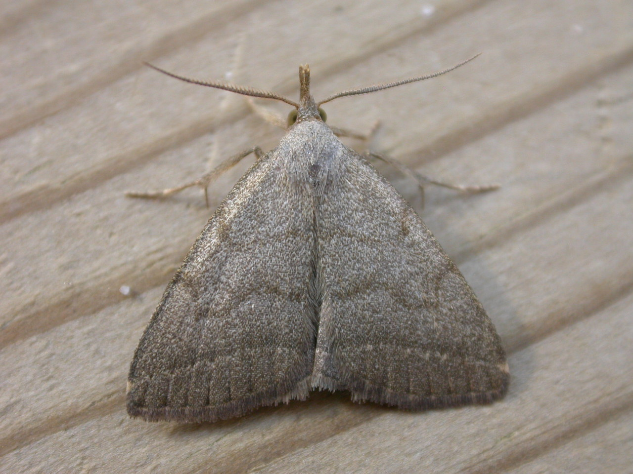 Herminia tarsicrinalis